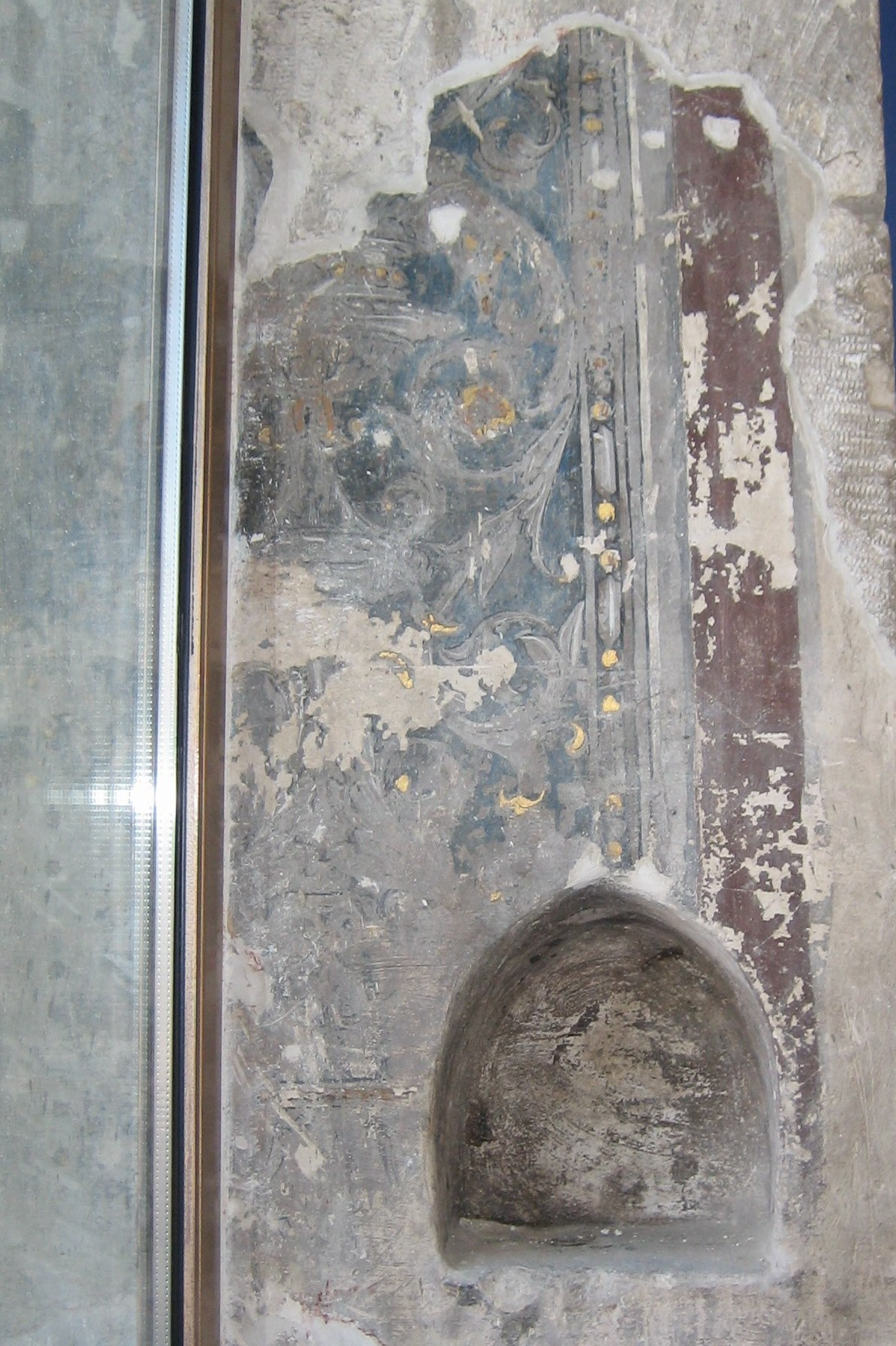 Palace of King Pedro I, in Cuéllar.